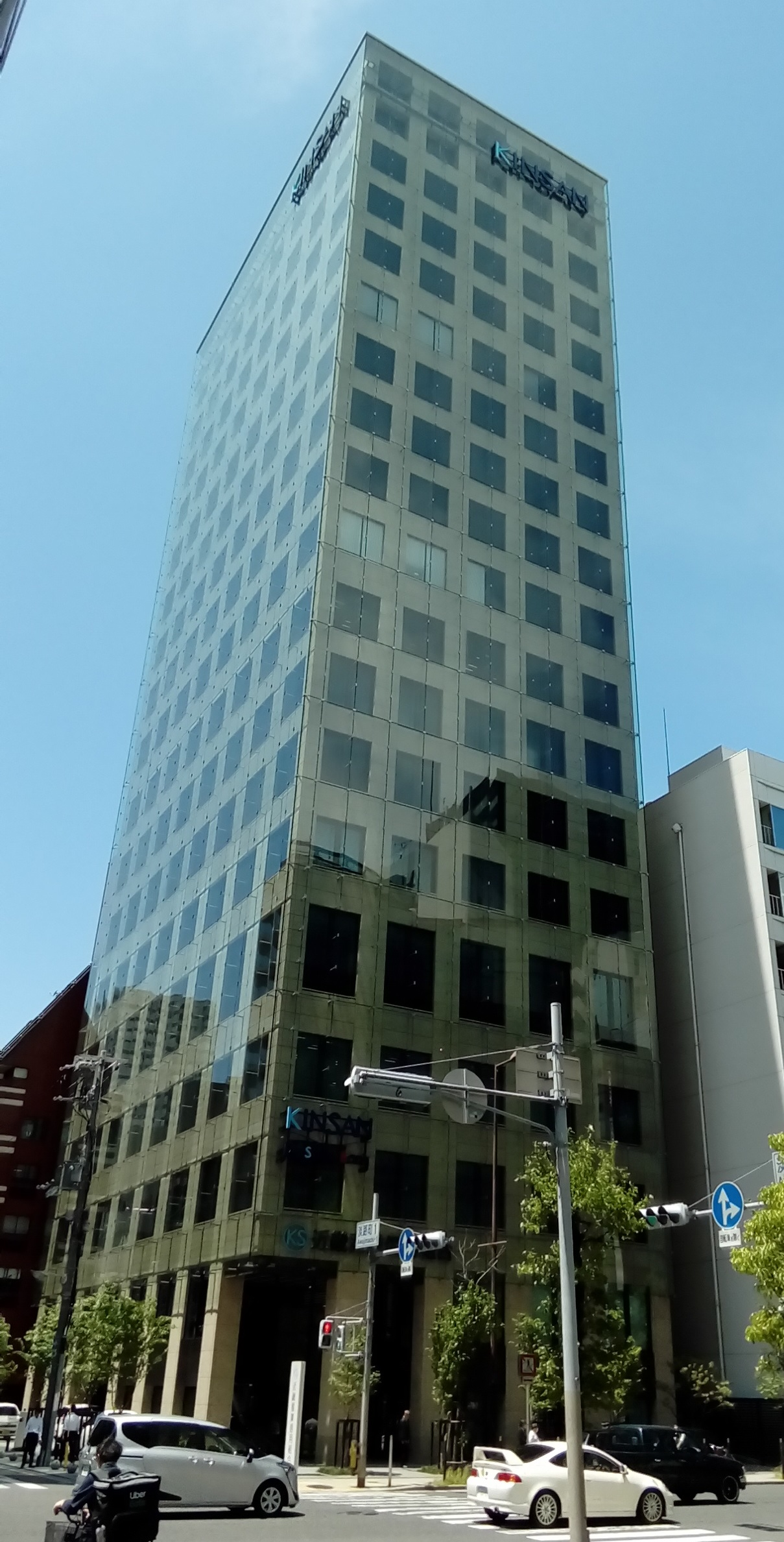 Kinkisangyo Shinkumi Bank Headquarter office